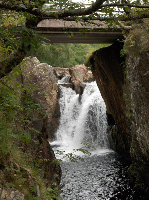 Waterfall, River Nevis. View under the road bridge at Polldubh.